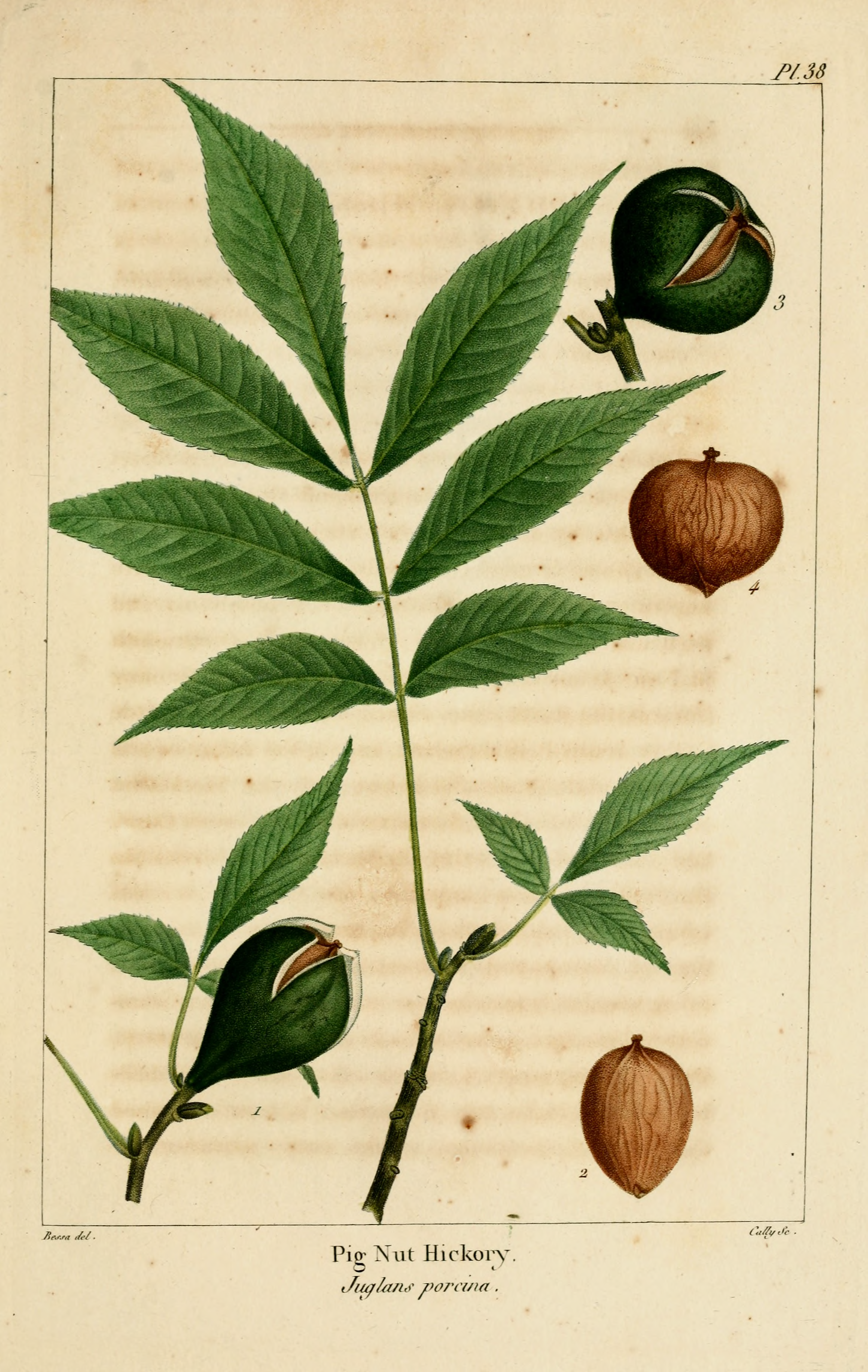 Plate 38 from The North American Sylva: Carya glabra. (Original caption: Pig Nut Hickory. Juglans porcina.)